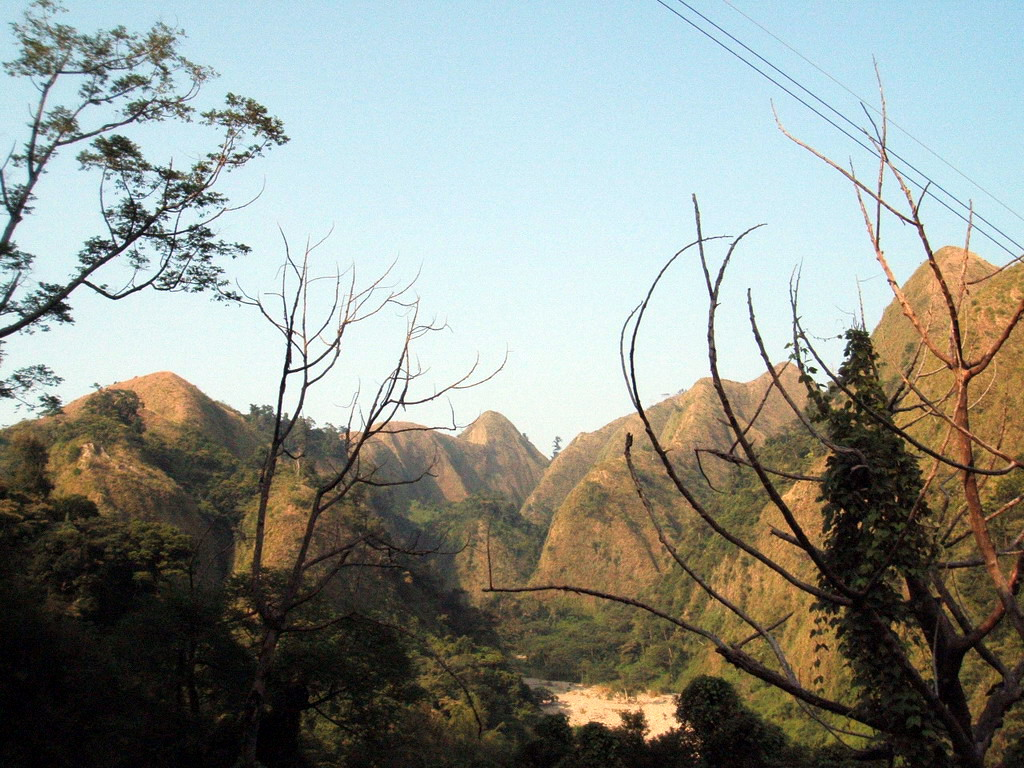 Jiujiufeng in Taiwan